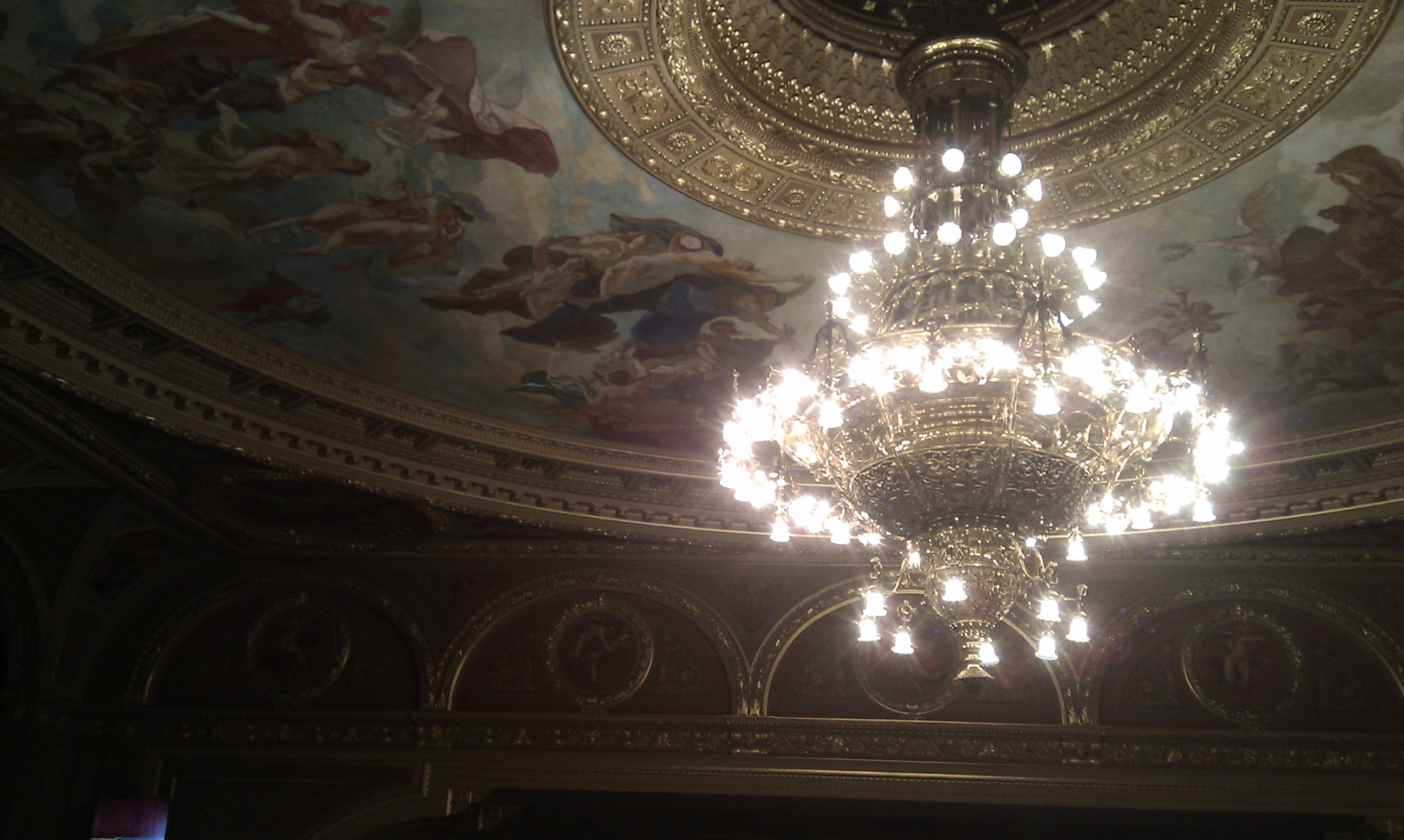 Lamp on ceiling at Budapest Opera House